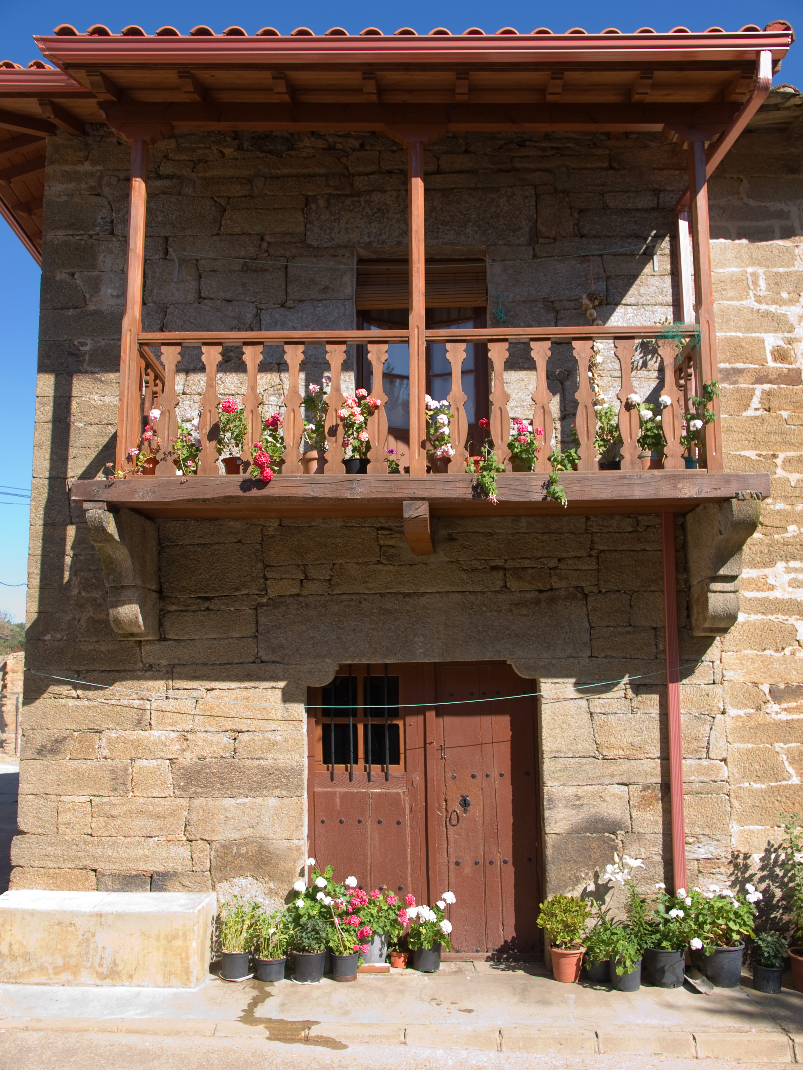 A traditional house, with its stone wall, in the spanish town of Villardeciervos (province of Zamora)